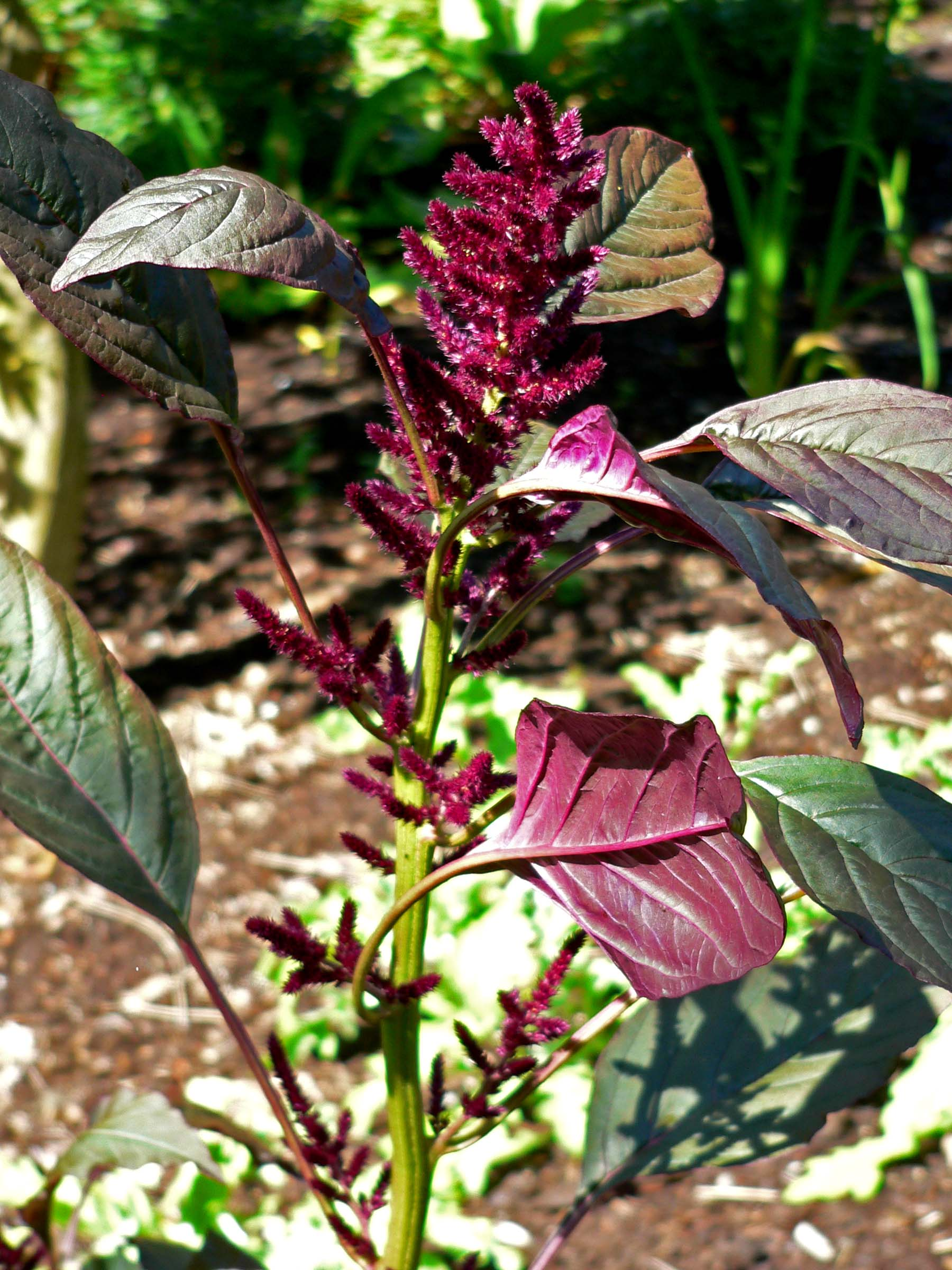 Photo of Amaranthus cruentus 'Foxtail' at the VanDusen Botanical Garden in Vancouver